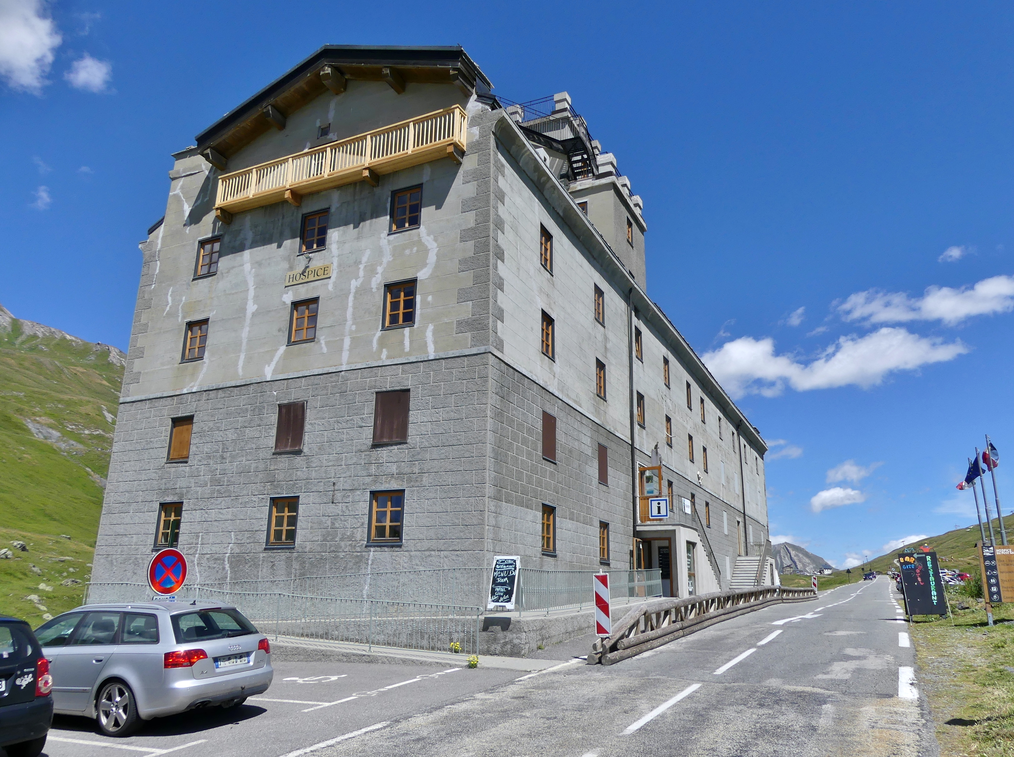 Sight, at noon from the south, of the restored hospice of Petit-Saint-Bernard pass, in Savoie, France.